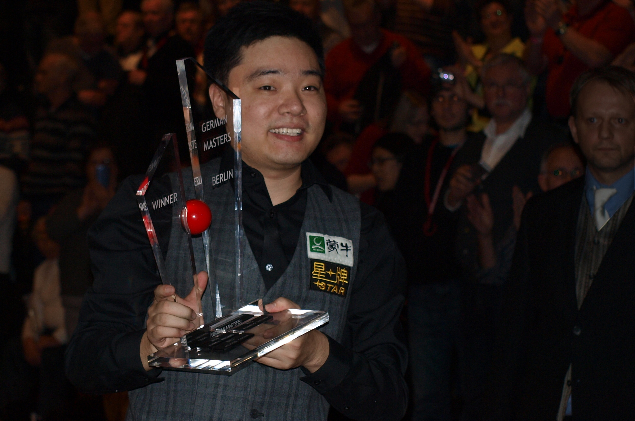 2nd session (final) honorable round Ding Junhui